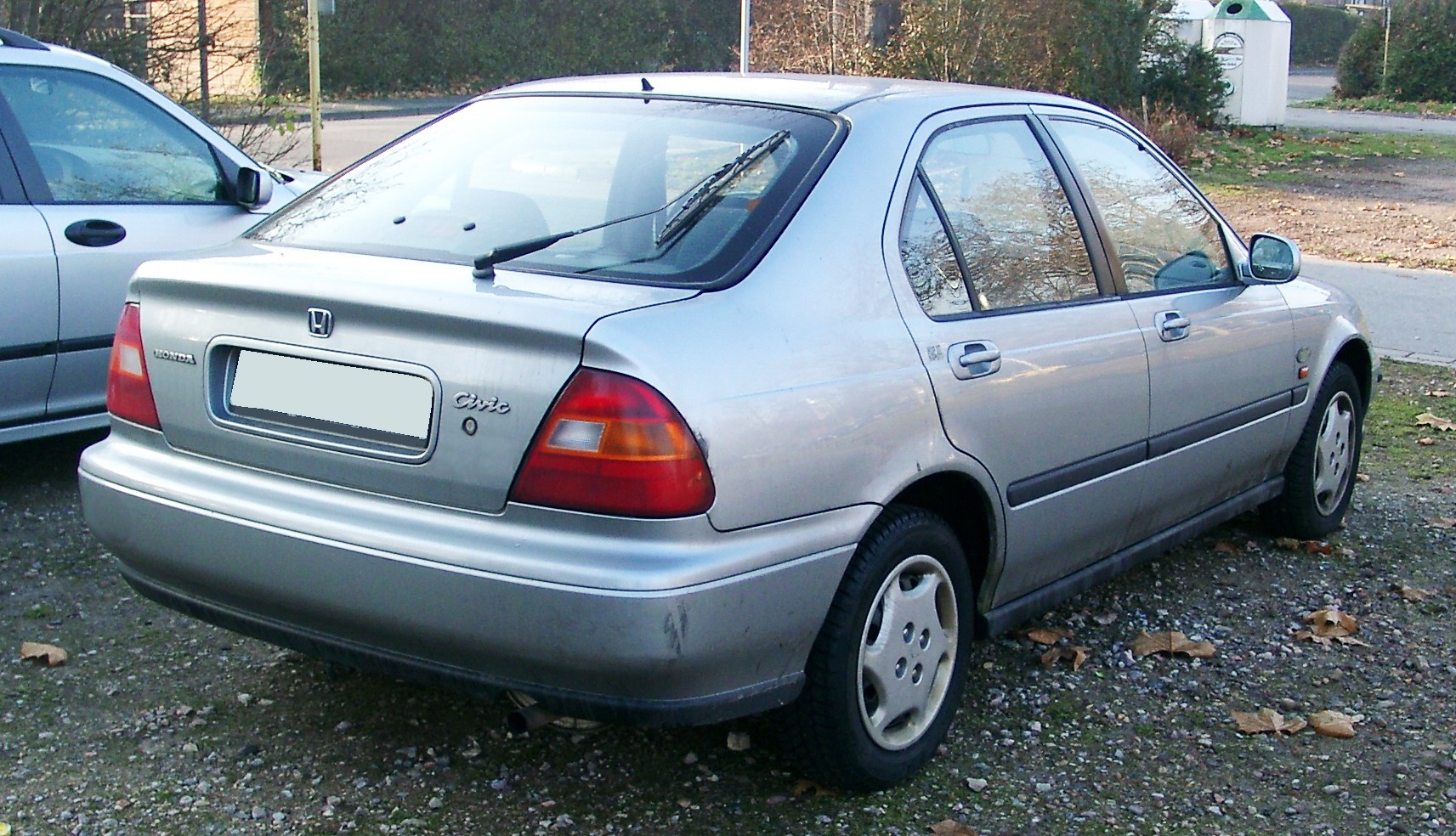 Honda Civic, 6. Generation